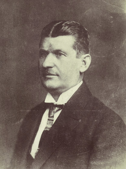 my dad worked for the bata shoe company and this was in his possesion